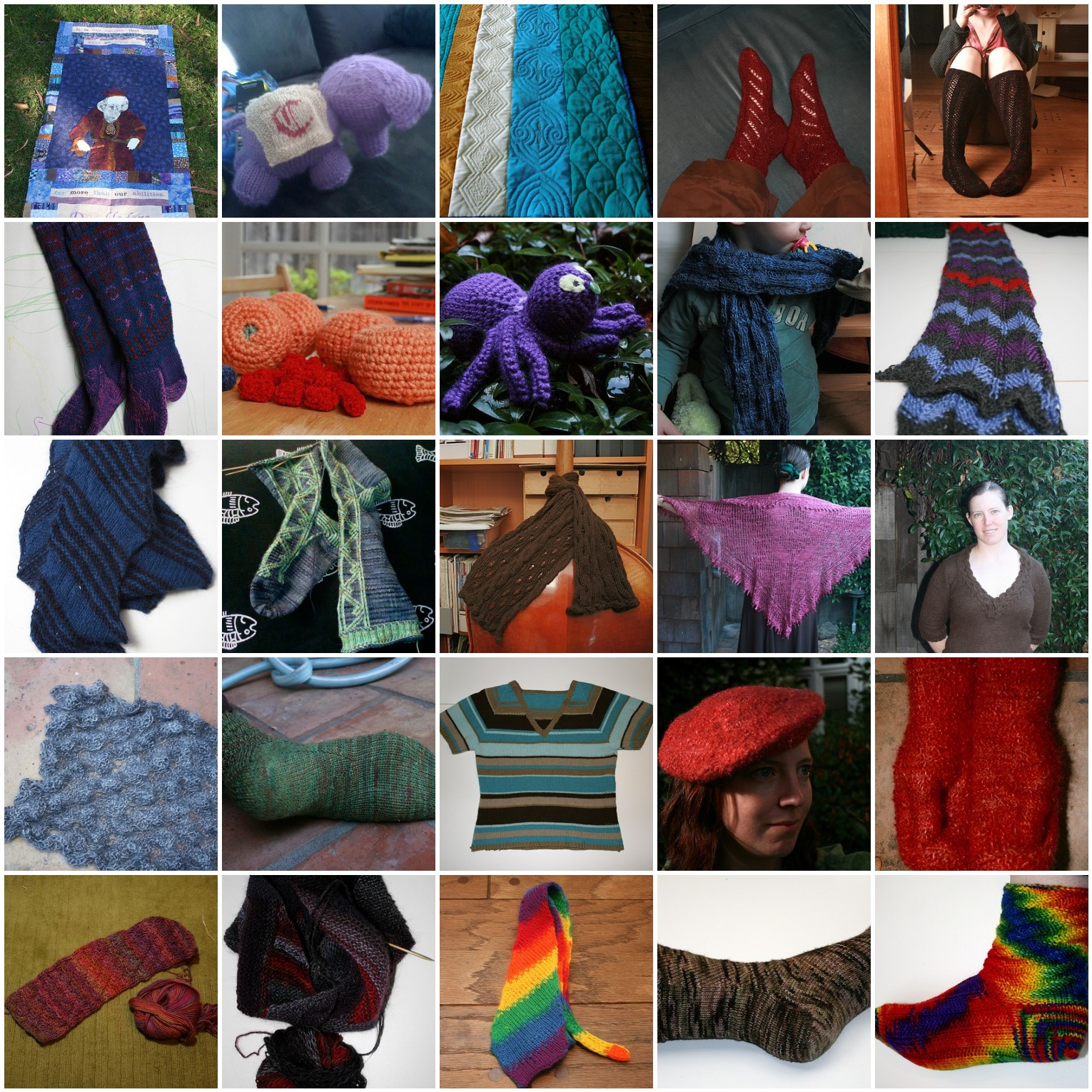 I finished 25 quilted, knitted and crocheted things in 2008. 15 have been given away (so far) 1. Dumbledore top in progress, 2. Baby's initial on baby toy, 3. Outer stripes, 4. chinese yarn socks, 5. Anna socks modeled in mirror, 6. purple Fair Isle socks, 7. crochet fruit, 8. bigass spider, 9. limited-edition-rib-2, 10. color-chevron-scarf, 11. angora-parallelograms, 12. Souvenir of Ireland almost done, 13. Logan River Scarf, 14. Cell-automaton-full, 15. Cable-trim-neckline, 16. Primero scarf detail, 17. Riverbed sole, 18. Essential Stripe from kit, 19. Duet mohair wool beret, 20. Duet mohair wool mittens, 21. Diasilkombre progress, 22. Diakeito Diadomino yarn, nearly two balls already knit up, 23. Rainbow tie, 24. Faux laceup foxglove socks, 25. Rainbow spiral socks Created with fd's Flickr Toys.